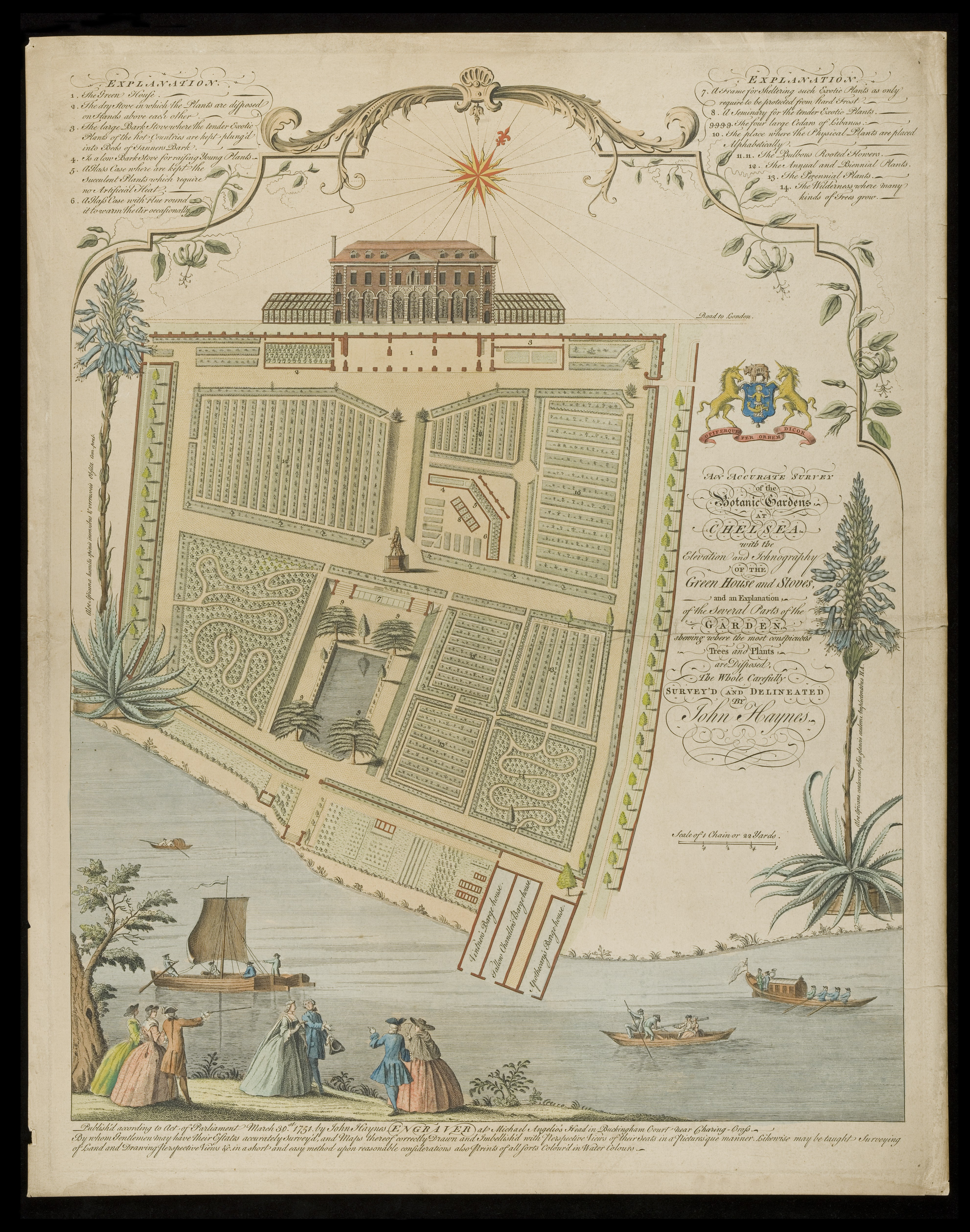 The Physic Garden, Chelsea: a plan view. Engraving by John Haynes, 1751 Iconographic Collections Keywords: Chelsea Physic Garden.; Society of Apothecaries, London.; John Haynes; Hans Sloane